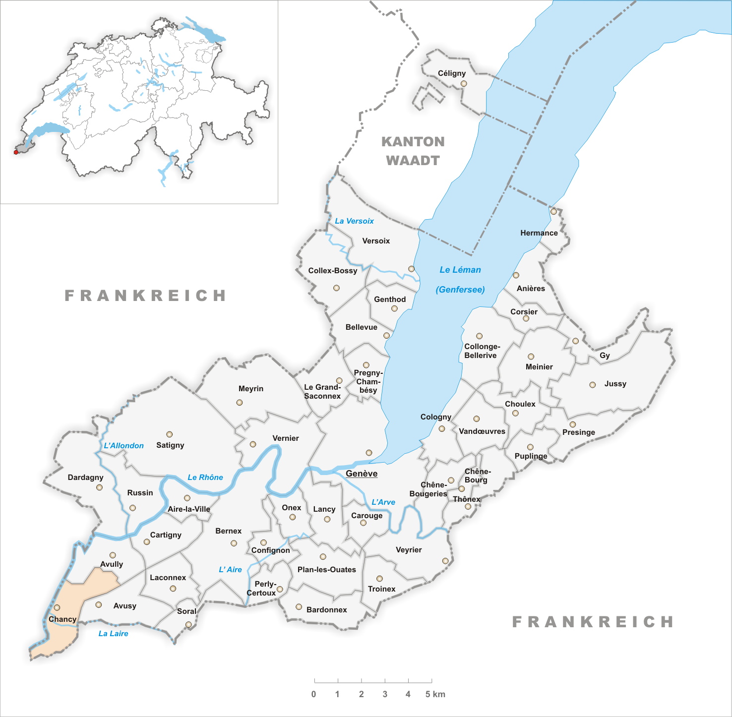 Municipality Chancy